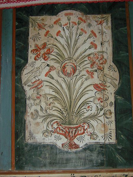 Reformed church, organ-loft detail in Bicălatu, Cluj